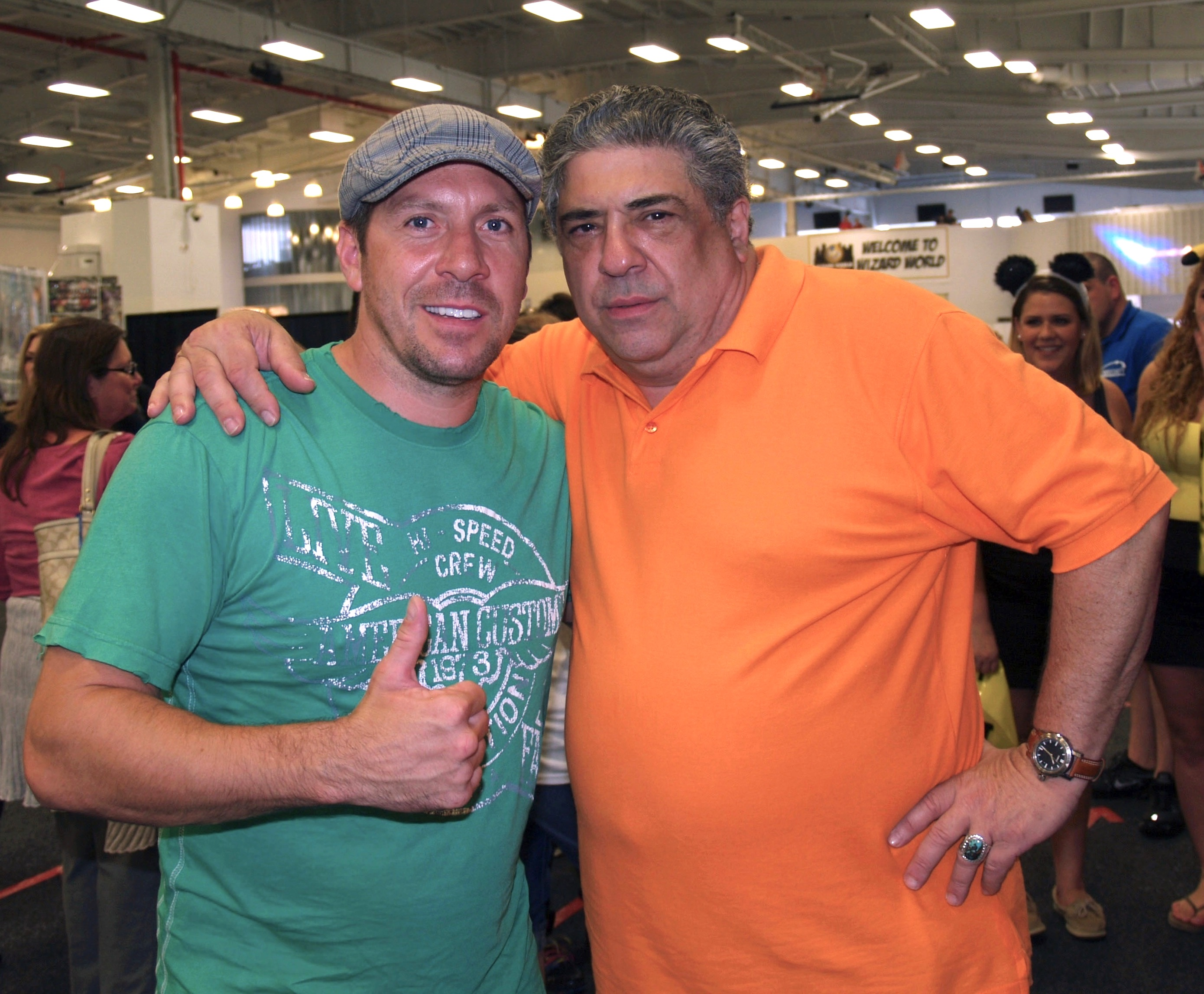 Scottish actor, stuntman and martial artist Ray Park (left) with American actor Vincent Pastore (right) at the 2013 Wizard World New York Experience Comic Con, at Pier 36 in Manhatan, June 30, 2013. This photo was created by Luigi Novi. It is not in the public domain, and use of this file outside of the licensing terms is a copyright violation.